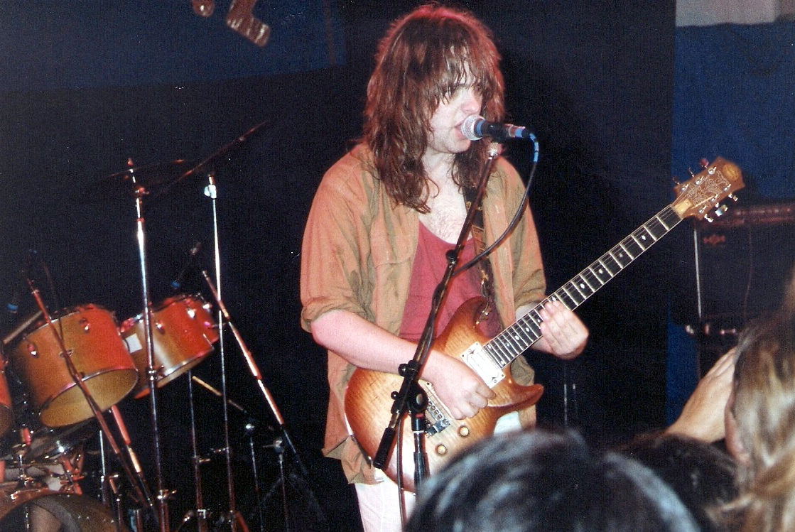 Troy Donockley at the Village Pump Festival in 1991